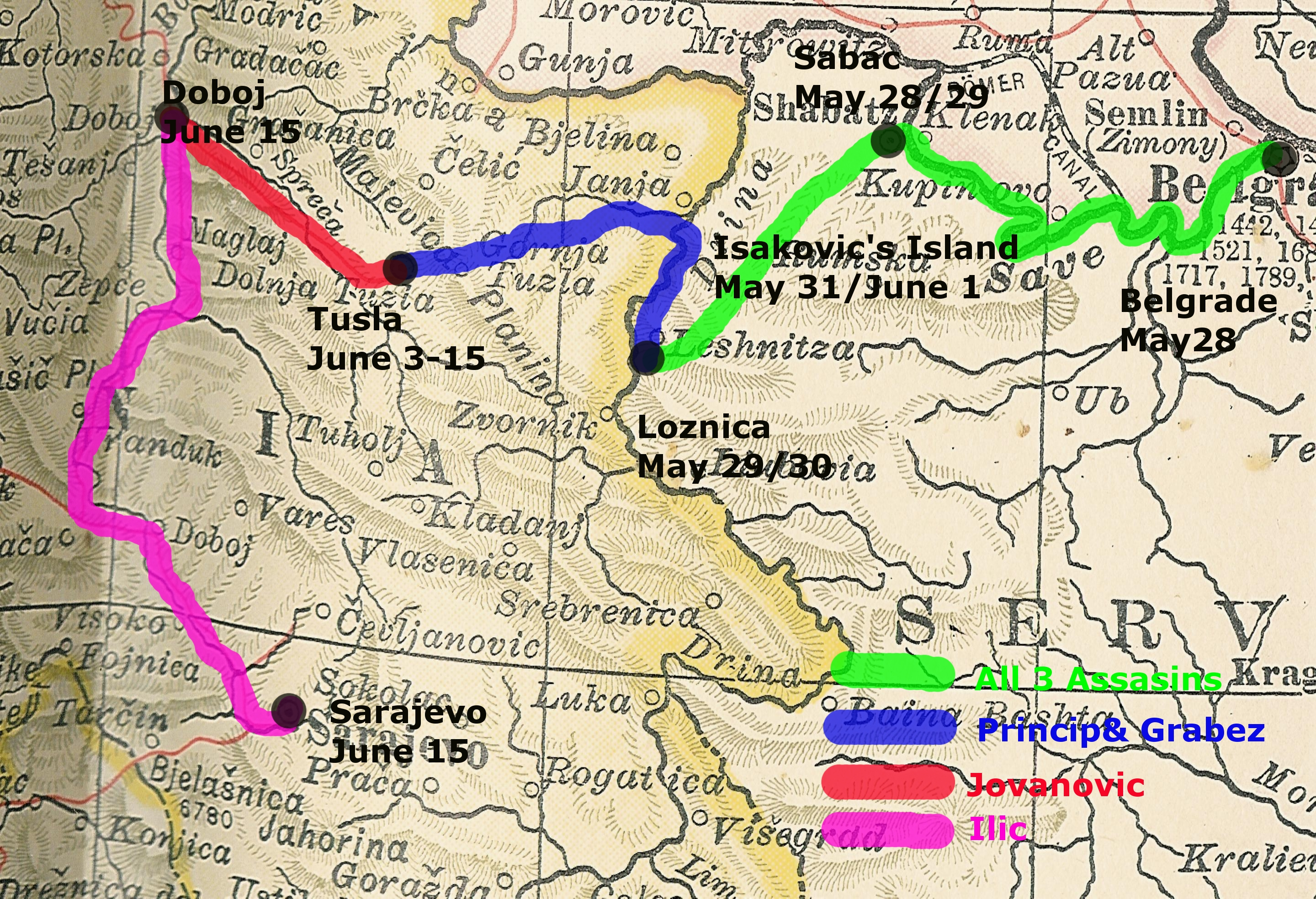 Map showing the route by which the weapons intended to assassinate Archduke Franz Ferdinand travelled to Sarajevo, May-June 1914.